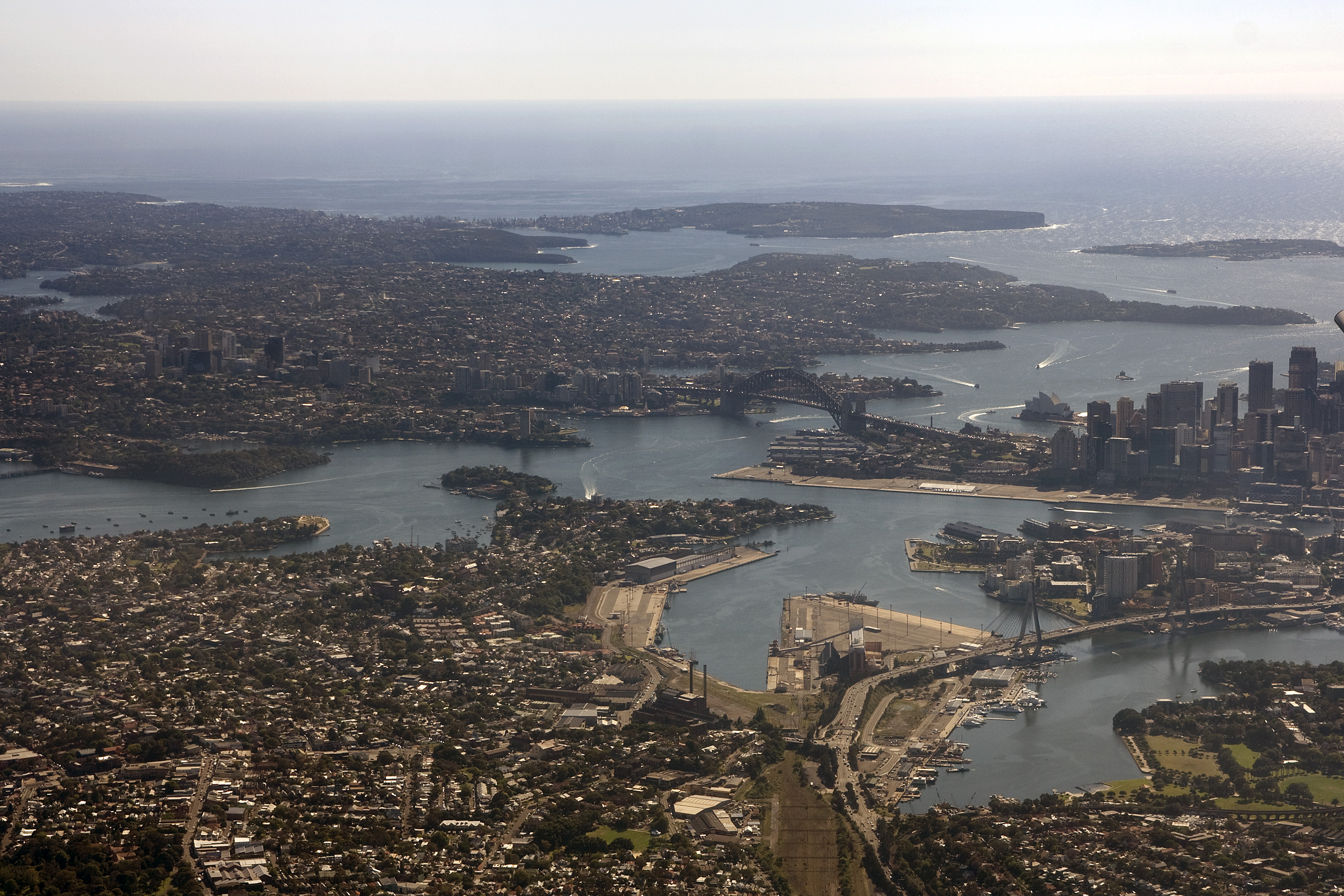 Sydney aerial view, with Balmain in left foreground